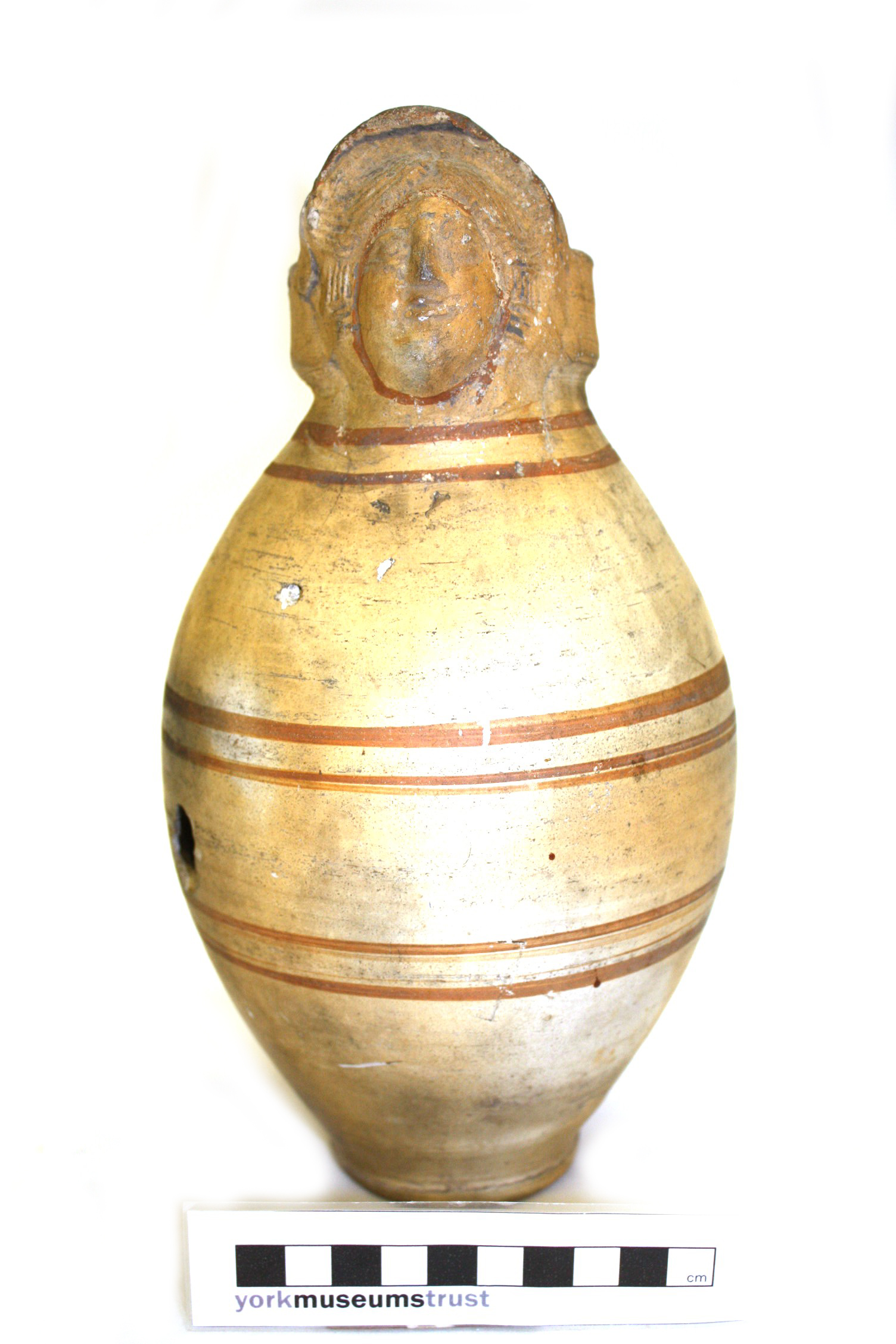 Ovoid Crambeck ware vessel, with moulded female face in relief projecting above rim. Dark red-orange details, including six horizontal stripes around body. Labelled as mask or face vase.